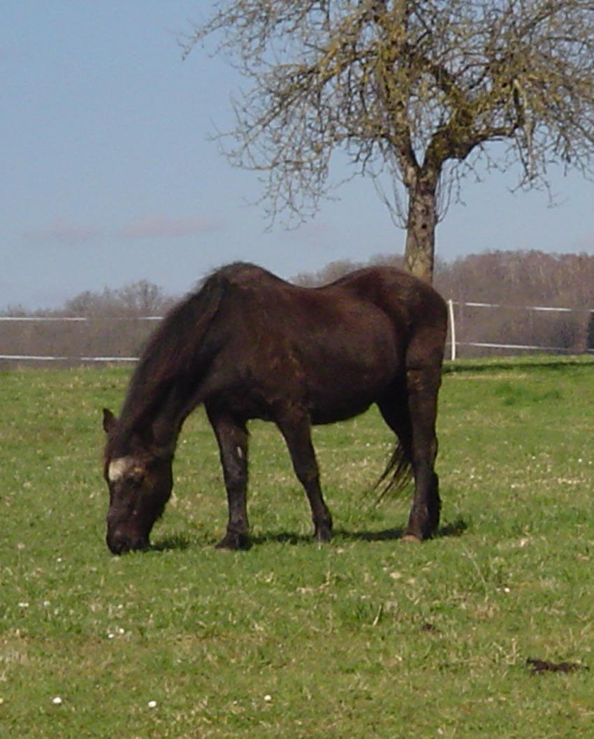 Landaise poney mare, Princesse Noire 2 By Jongleur and Sophie